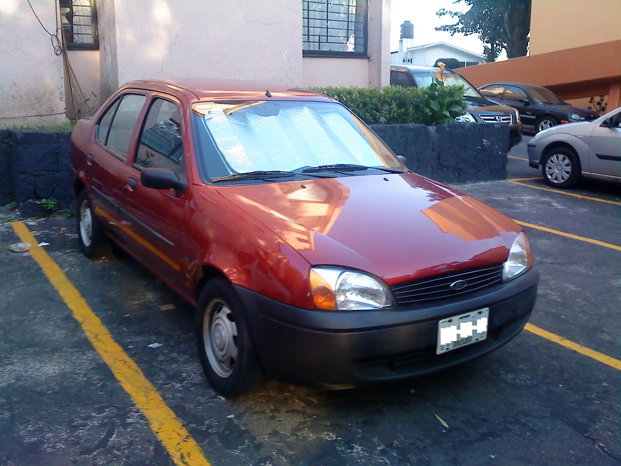 2001 Ford Ikon